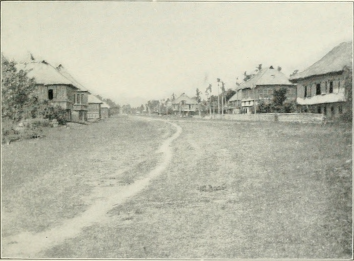 The main business center of Nueva Vizcaya at the start of American Occupation